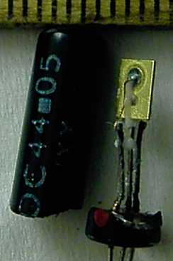 An old germanium based bipolar transistor with a view to the point contact chip. There was some white matter removed so the chip could be seen. A little of the white matter are still visible. The rectangular plate are the base in both senses. It is the actual base of the point contact transistor - and in the second sense it the terminal base. The front of the chip has a junction and on the back the chip has a second junction, that is why it is called a bipolar junction transistor - or short BJT. Today in modern bipolar silicium based planar transistors, the base terminal is not the physical base. Modern chips do not have visible junctions, the junctions are there, but they are below the surface of the transistorchip. The black lines at the top are a millimeter scale.